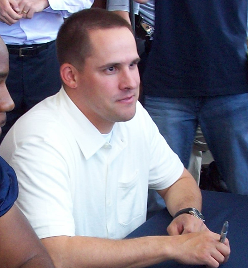 Josh McDaniels at the 2009 Denver Broncos Fan Fair